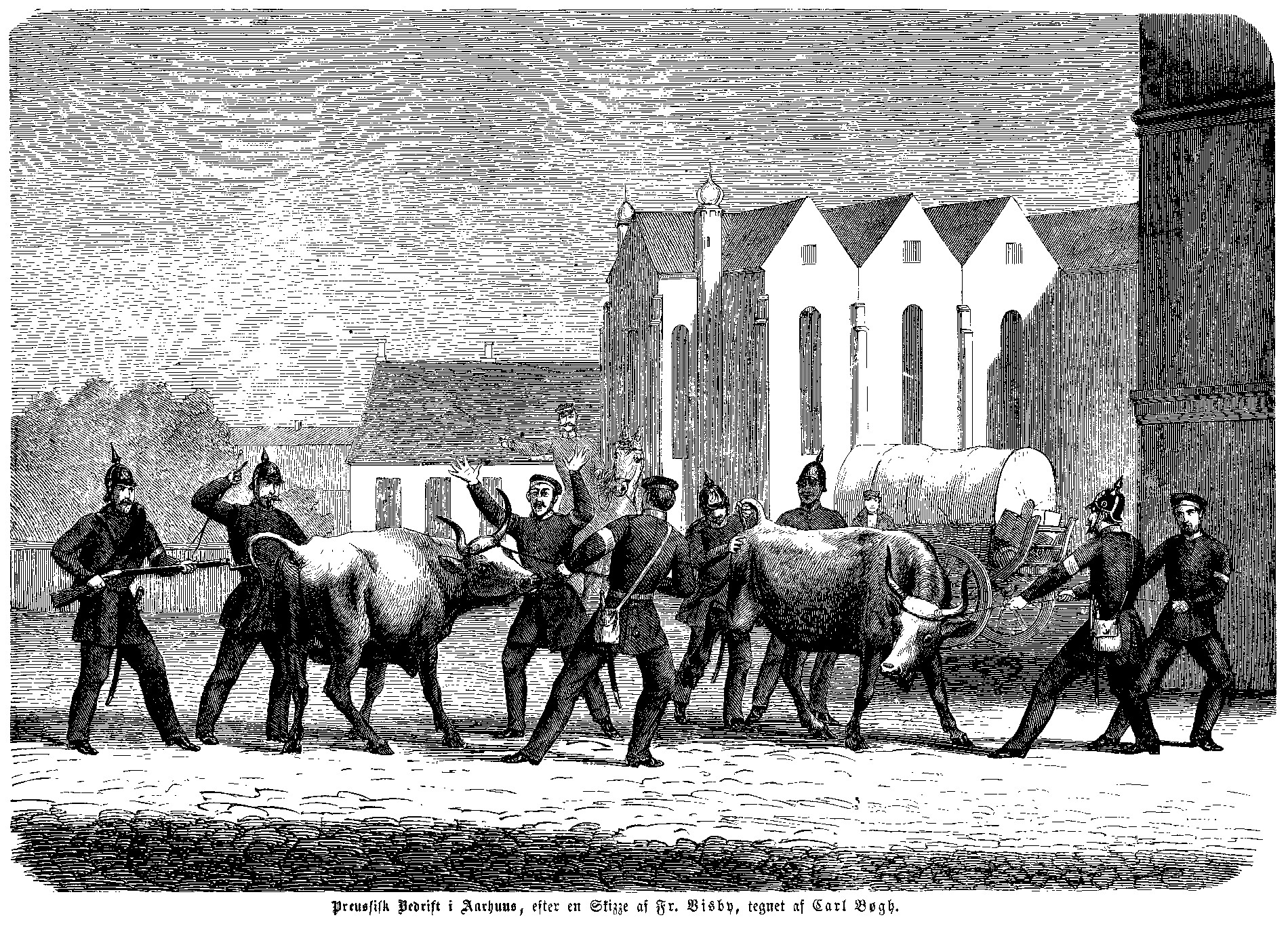 Prussian soldiers driving cattle at Domkirken. Seen from the street of Mejlgade (Domkirkepladsen). Frederik Visby made a sketch of the events and Carl Bøgh made the drawing that was used in Illustreret Tidende.